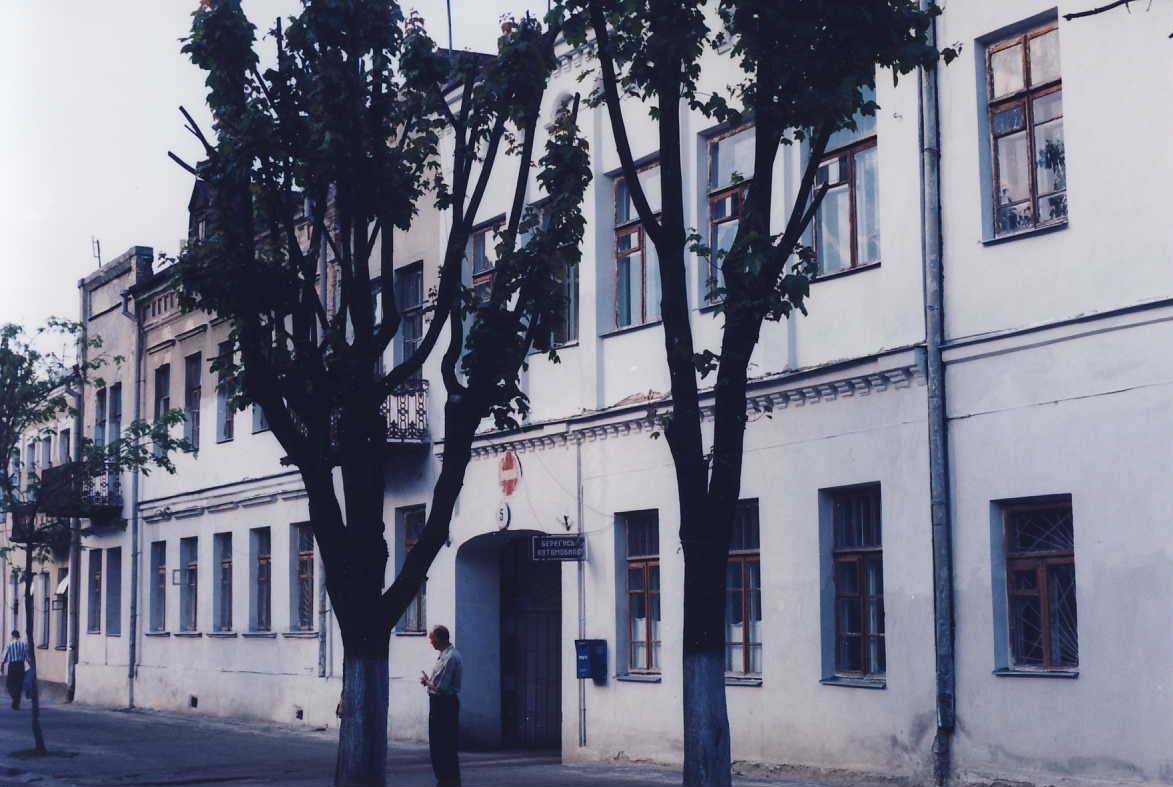 Building of the former POW hospital 5849 in Brest (Belarus)